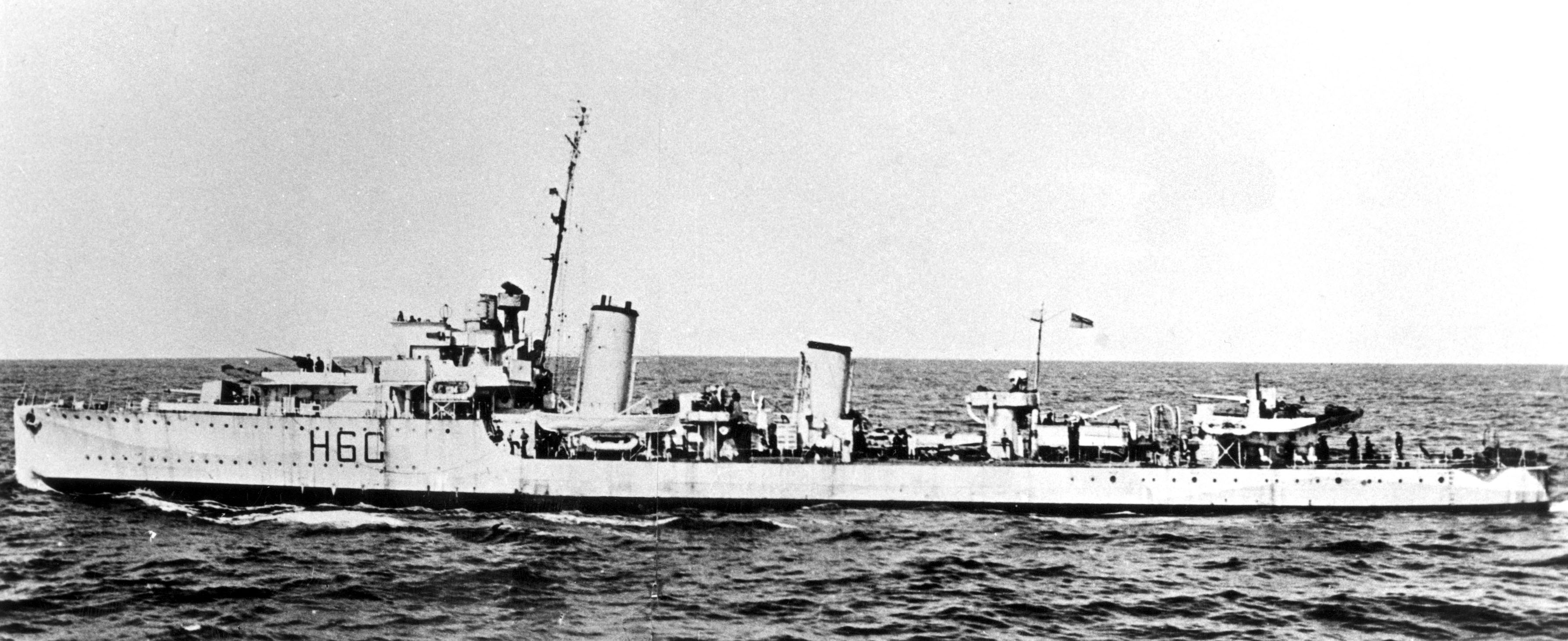 HMCS Ottawa with a 3-inch AA gun in lieu of her rear torpedo tube mount and 'Y' gun removed.